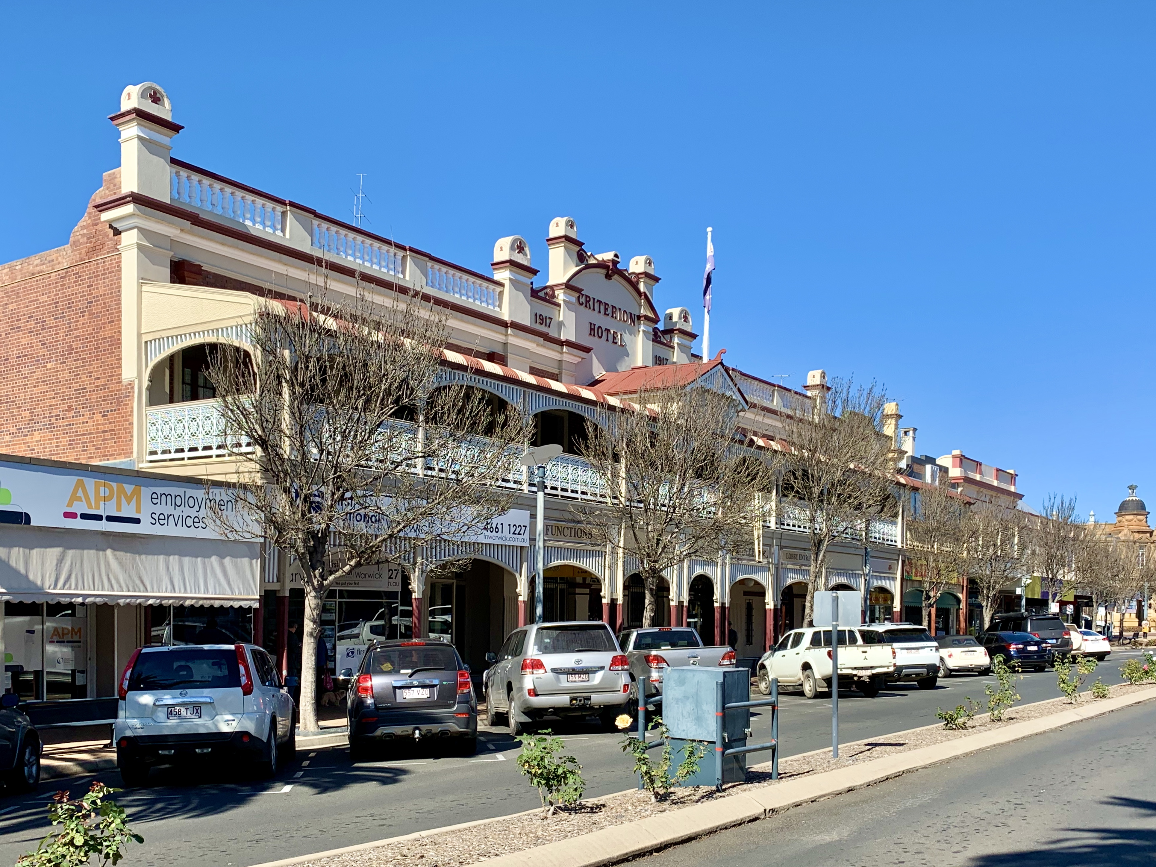 Criterion Hotel, Warwick, Queensland, June 2020